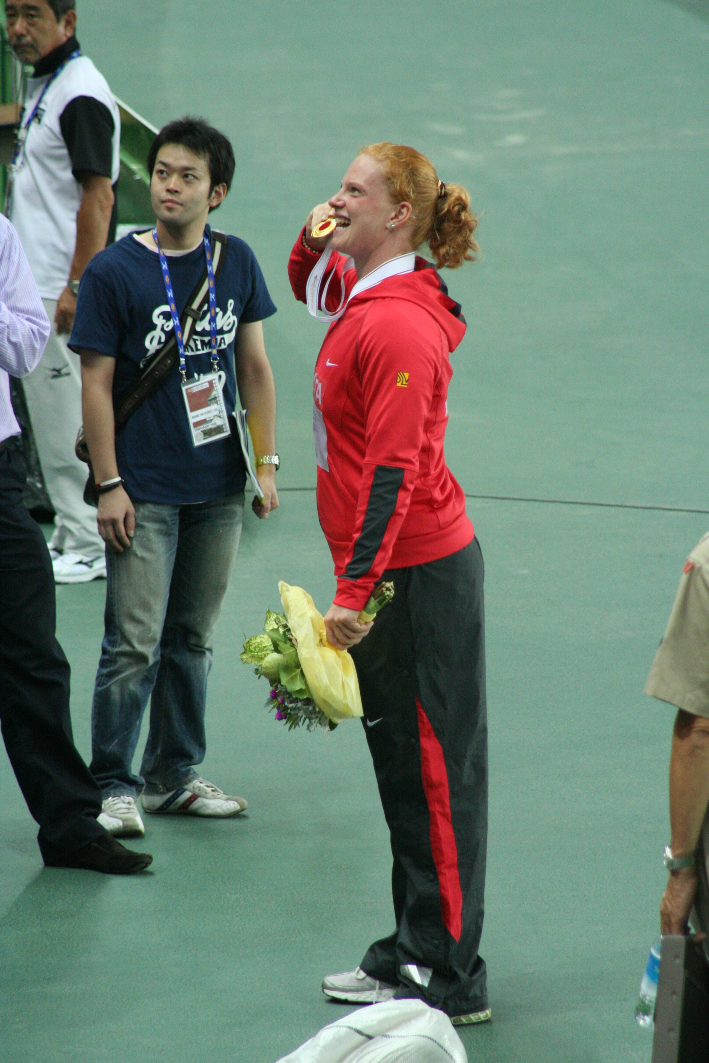 World Athletics Championships 2007 in Osaka - Hammoer throwing champion Betty Heidler after the victory ceremony